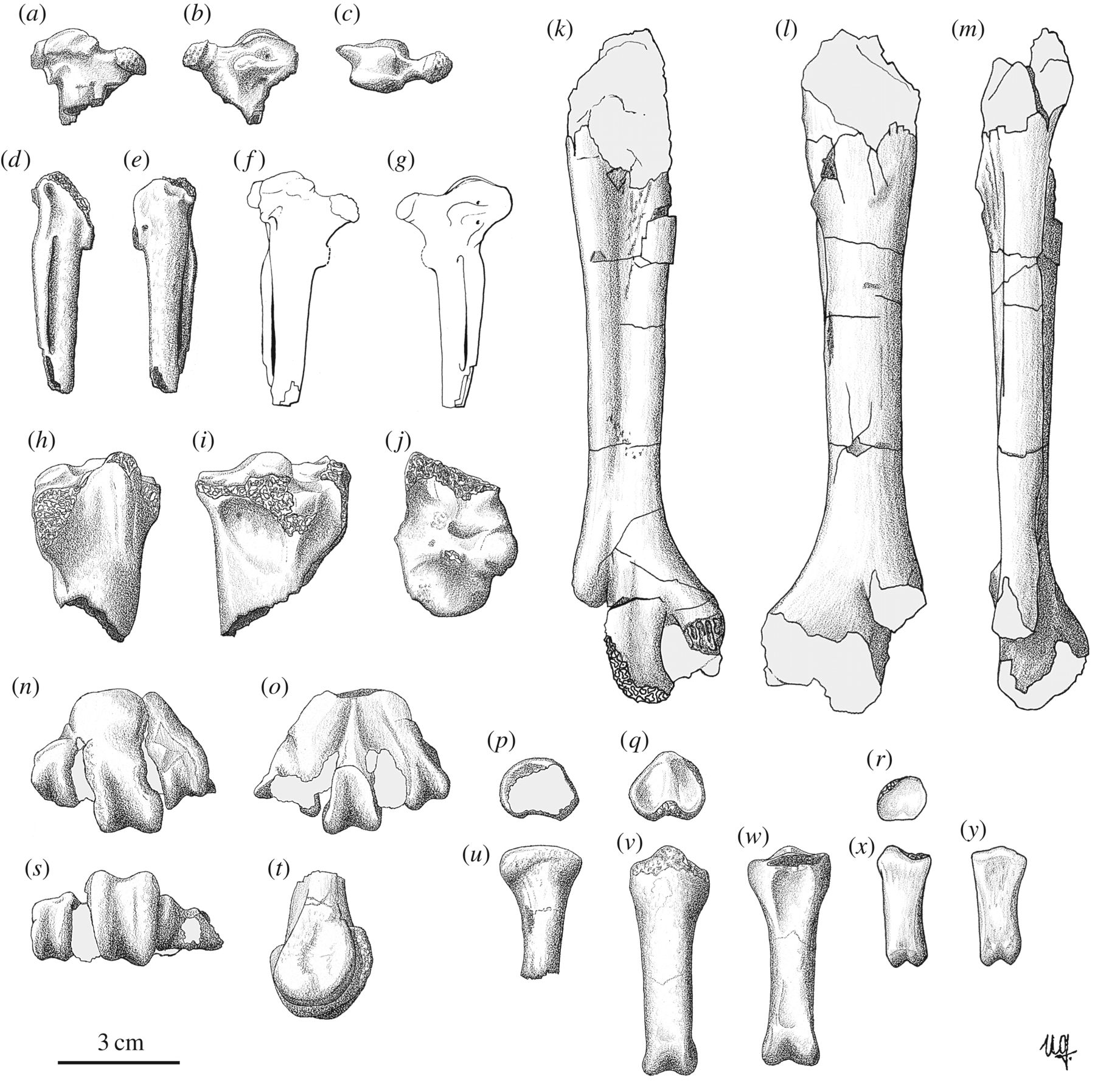 Figure 3. Drawings of the bones of Garganornis ballmanni Meijer, 2014; all the bones are from the Late Miocene of Gargano except one (k–m) which is from the Late Miocene of Scontrone, Italy. (a–c) Right carpometacarpus DSTF-GA 49 in ventral (a), dorsal (b) and proximal (c) views; (d,e) left carpometacarpus NMA 504/1801 in ventral (d) and dorsal (e) views; (f,g) graphical reconstruction of the carpometacarpus of Garganornis ballmanni based on the specimens DSTF-GA 49 and NMA 504/1801 in ventral (f) and dorsal (g) views; (h–j) right tibiotarsus DSTF-GA 77 in cranial (h), caudal (i) and proximal (j) views; (k–m) right tarsometatarsus SCT 23 in dorsal (k), plantar (l) and lateral (m) views; (n,o,s,t) left tarsometatarsus RGM 425554 in dorsal (n), plantar (o), distal (s) and medial (t) views; (p,u) proximal pedal phalanx RGM 261945 in proximal (p) and dorsal (u) views; (q,v,w) proximal pedal phalanx RGM 261535 in proximal (q), dorsal (v) and plantar (w) views; (r,x,y) mesial pedal phalanx MGPT-PU 135536 in proximal (r), dorsal (x) and plantar (y) views. Scale bar represents 3 cm. Drawings made by Ursula B. Göhlich.